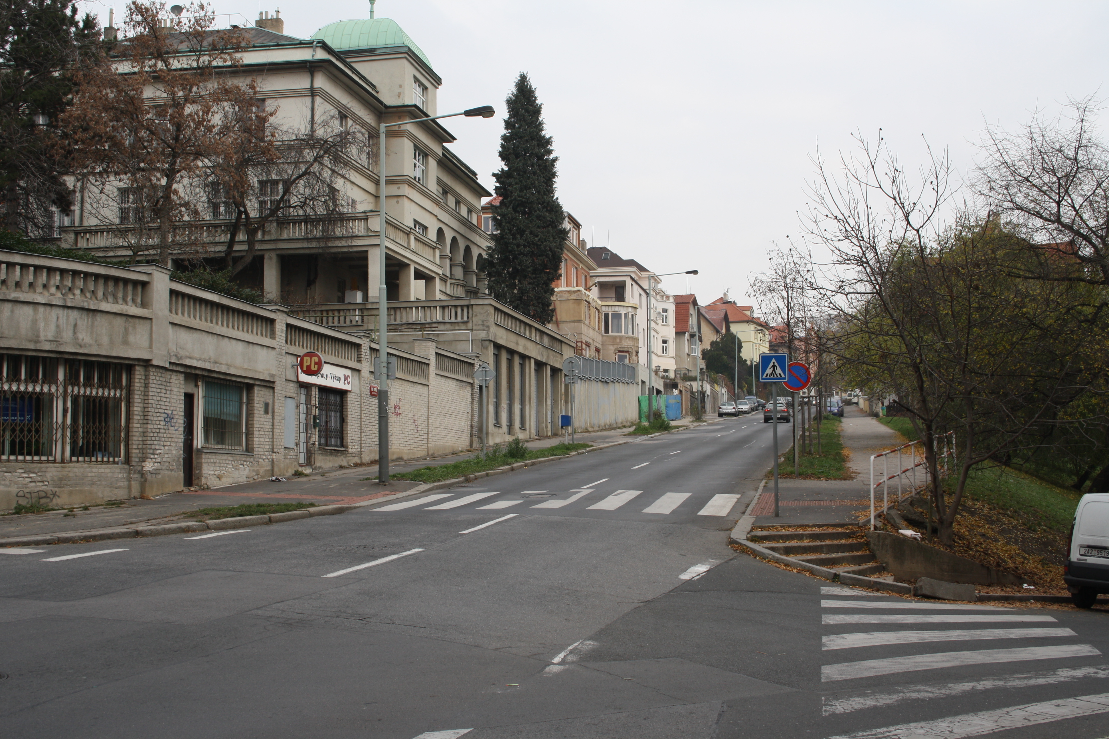 Na stráži crossing Na vartě, Libeň, Prague